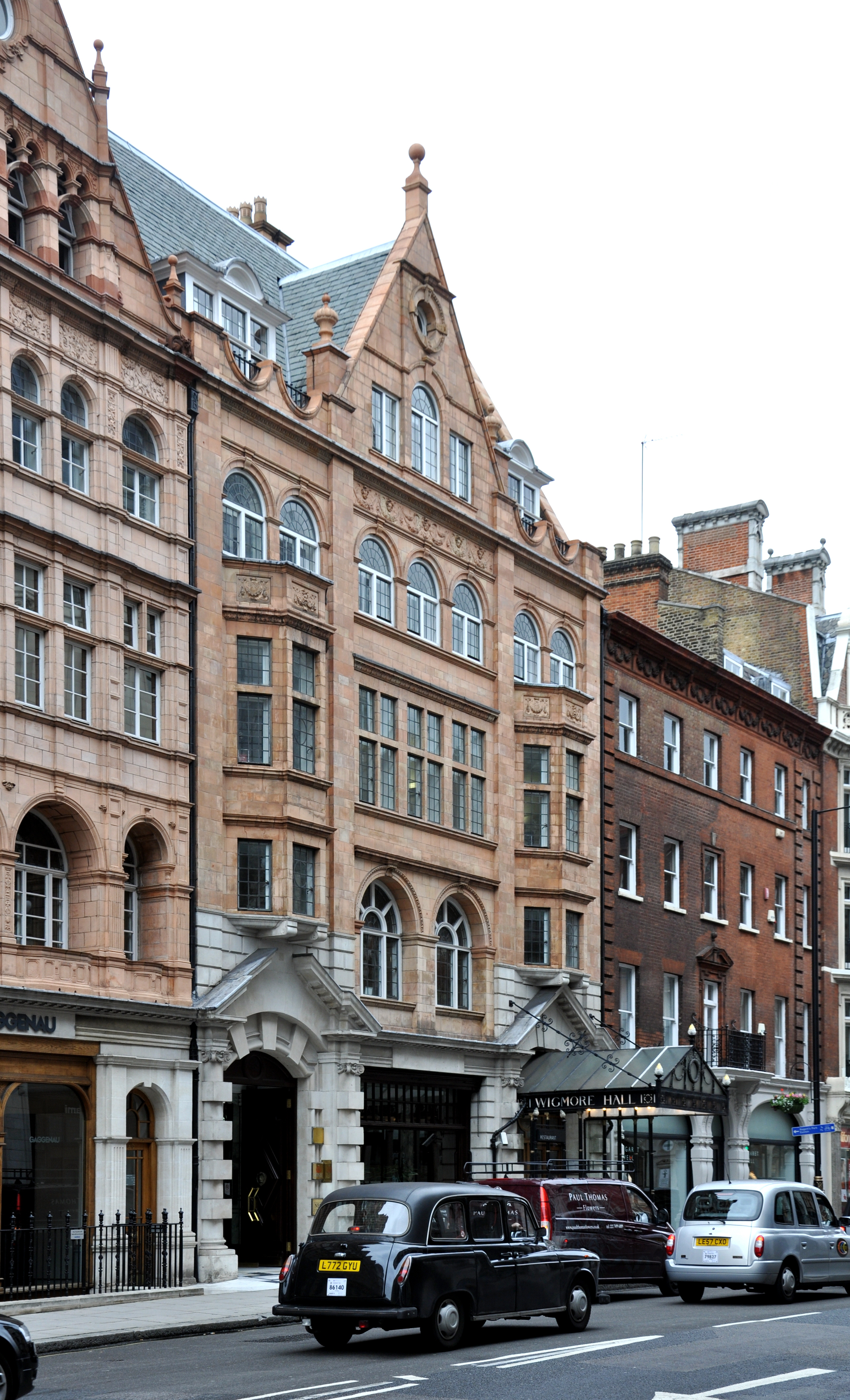 London, Wigmore Street with Wigmore Hall